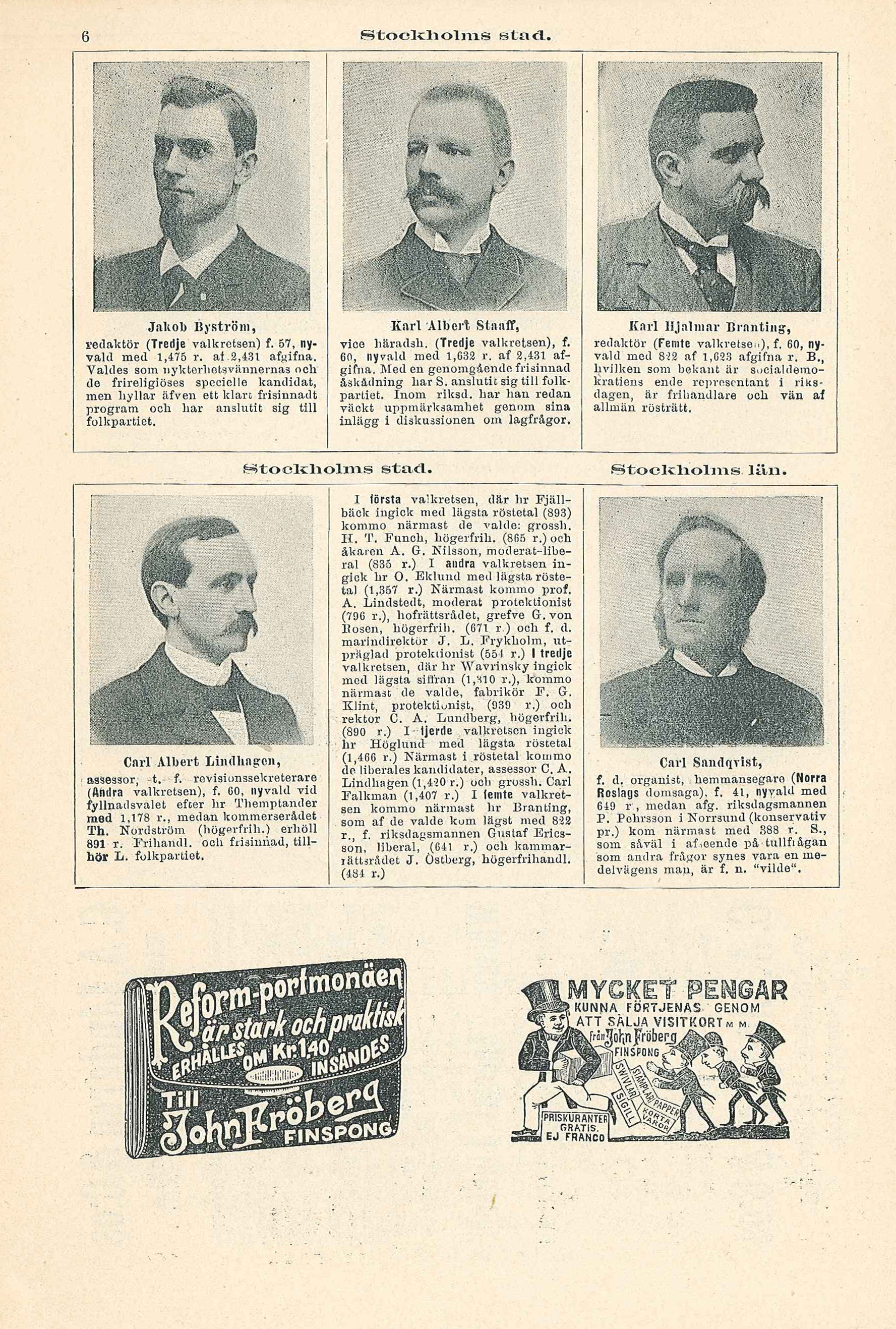 Page 6 of an album featuring portraits of all the members of the second chamber of the Swedish parliament (Sveriges riksdag) elected in 1897. This page featuring parts of the members representing the city of Stockholm and the county of Stockholm.